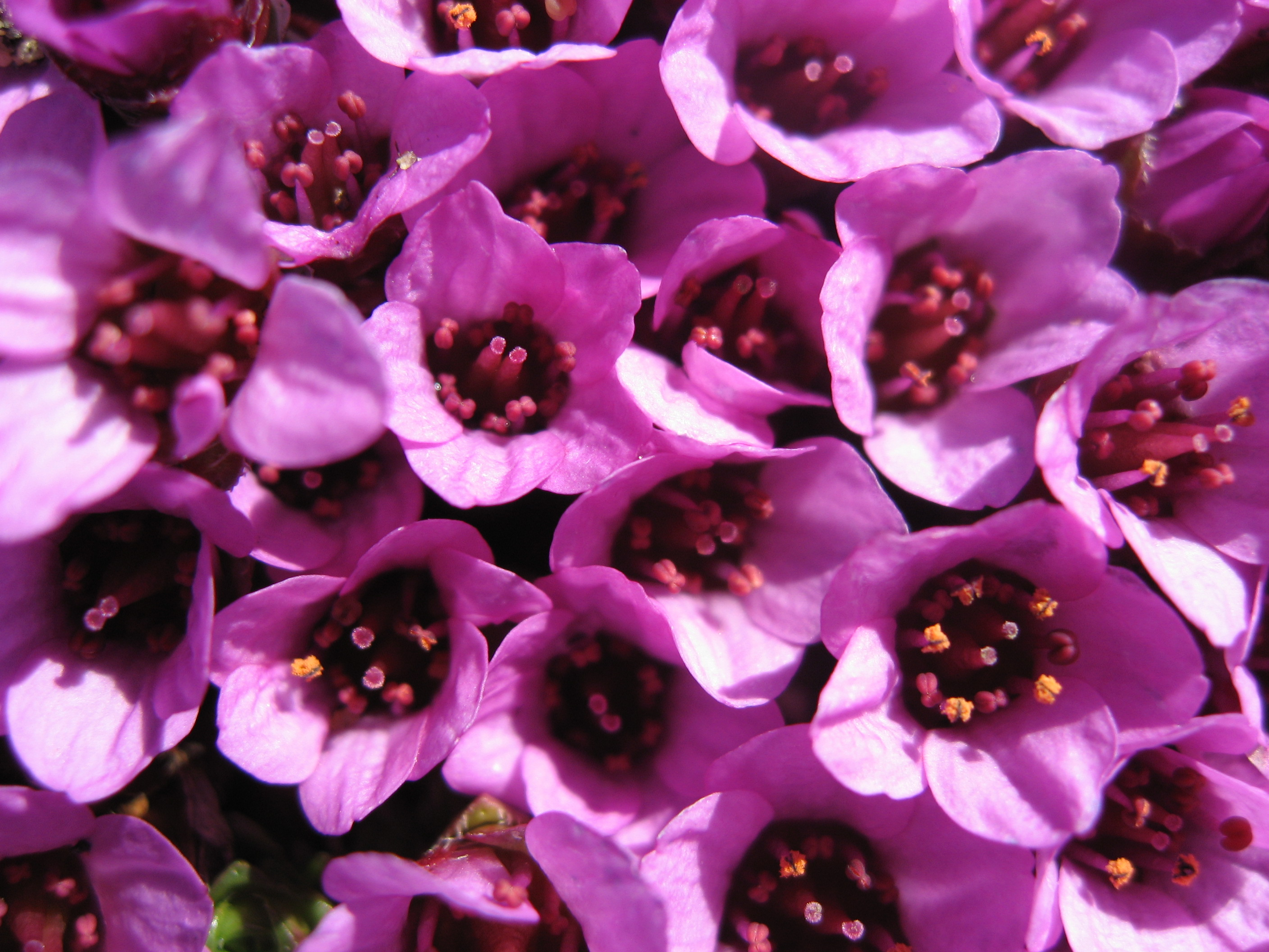 Purple Mountain Saxifrage (Saxifraga oppositifolia) close-up photographed near Upernavik, Greenland.